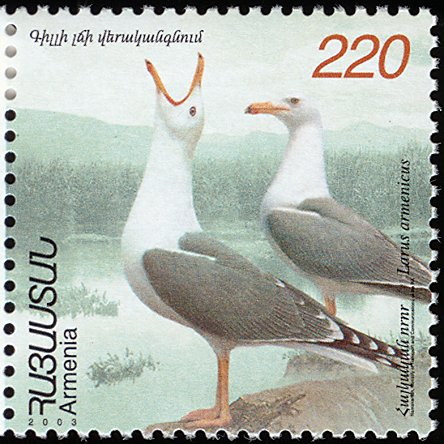 Armenian postage stamp showing an Armenian Gull